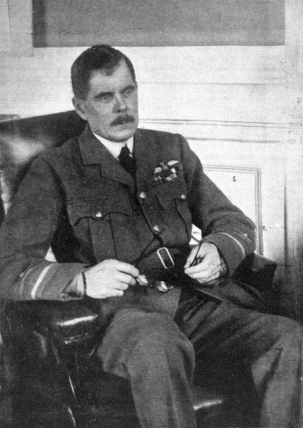 Major-General Sir Hugh Trenchard as Chief of the Air Staff